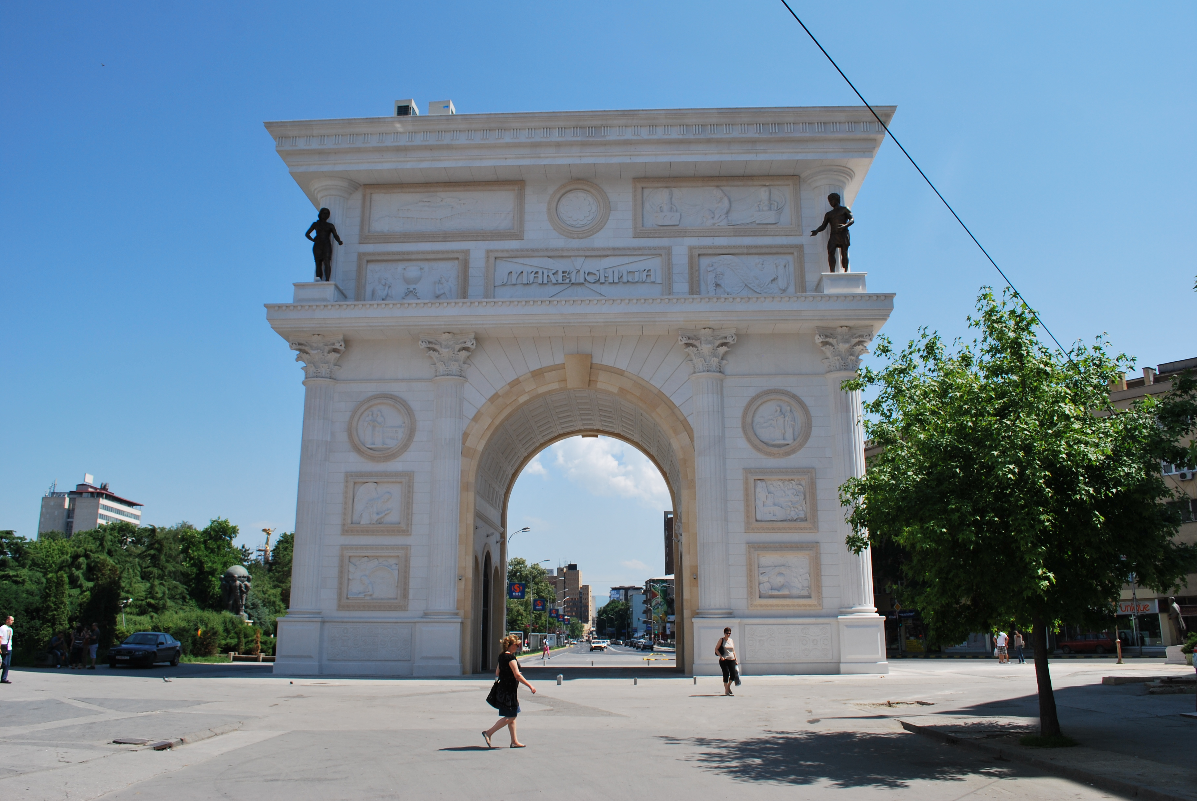 Triumphal arch "Porta Macedonia" in Skopje, Macedonia